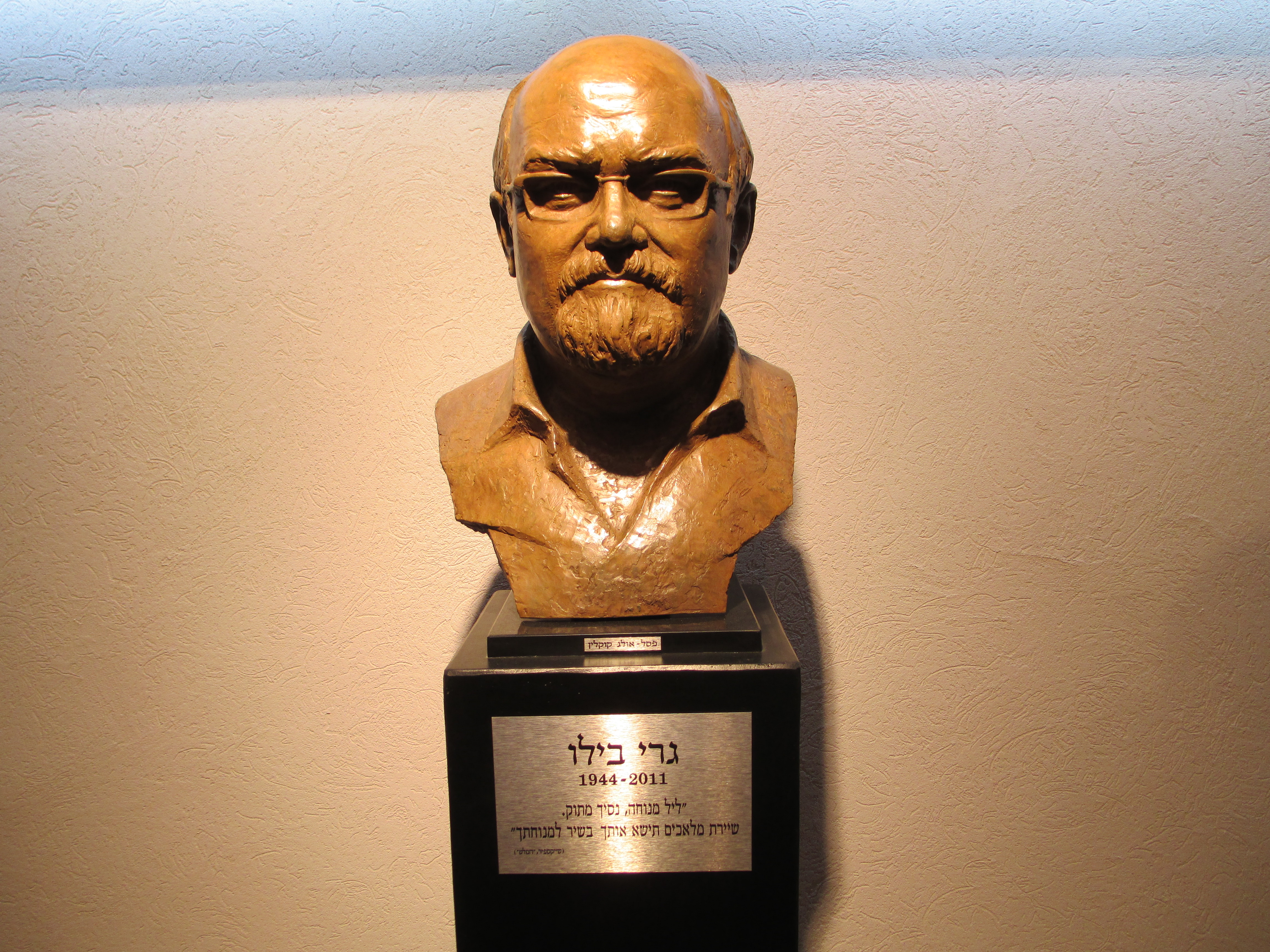 Sculpture of Geri Bilu, former director of Beit-Zvi school of performing arts in Ramat Gan פסל של גרי בילו בבית צבי. הפסל הוא אולג קוקלין